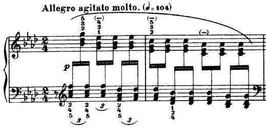 Beginning of the Transcendental Étude No. 10, "Appassionata" by Franz Liszt.